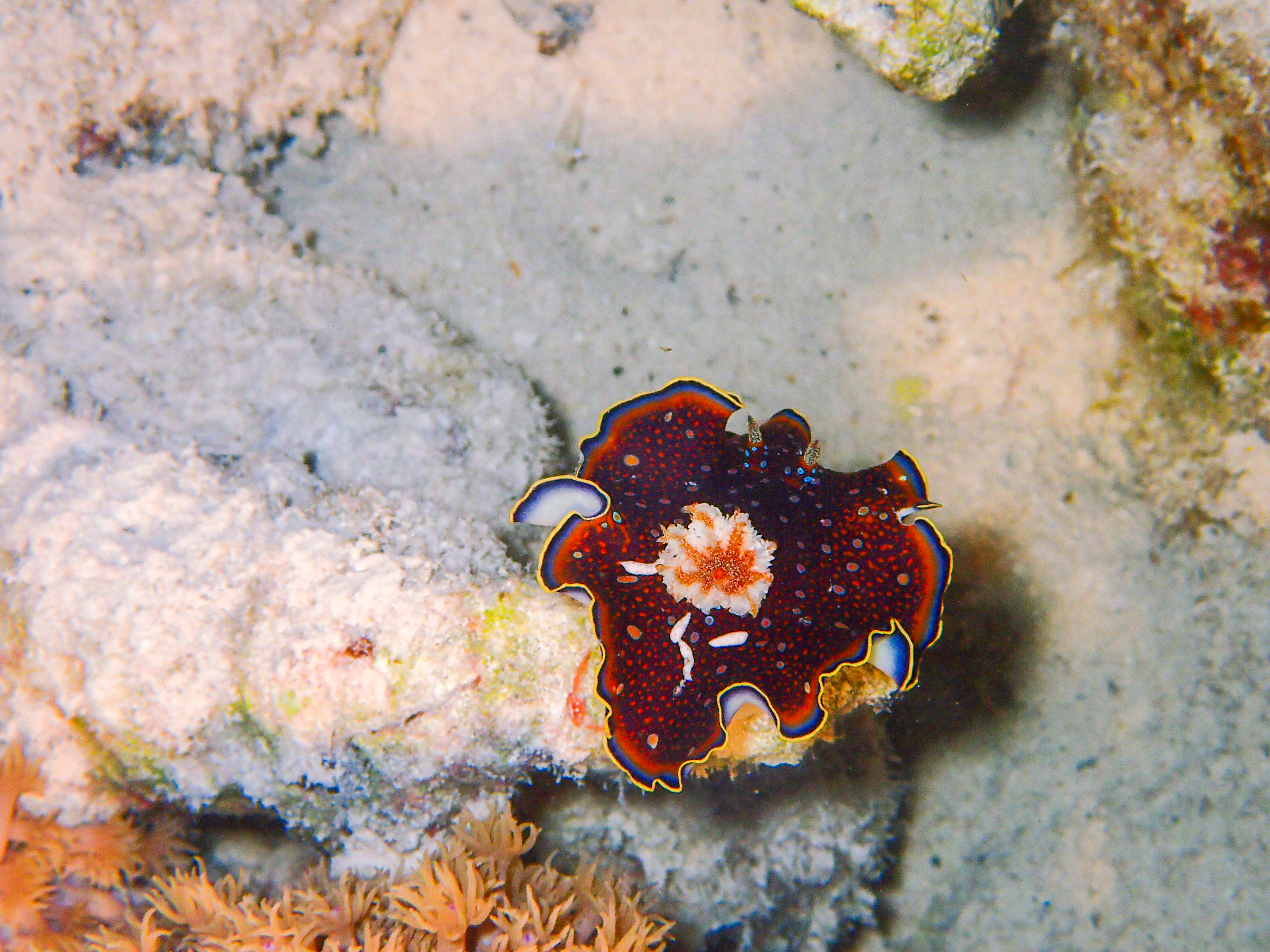 Goniobranchus charlottae (synonym: Chromodoris charlottae) at 8m depth in Marsa Shoona